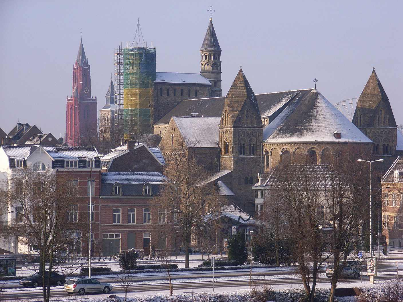 Basilika Onze Lieve Vrouwe